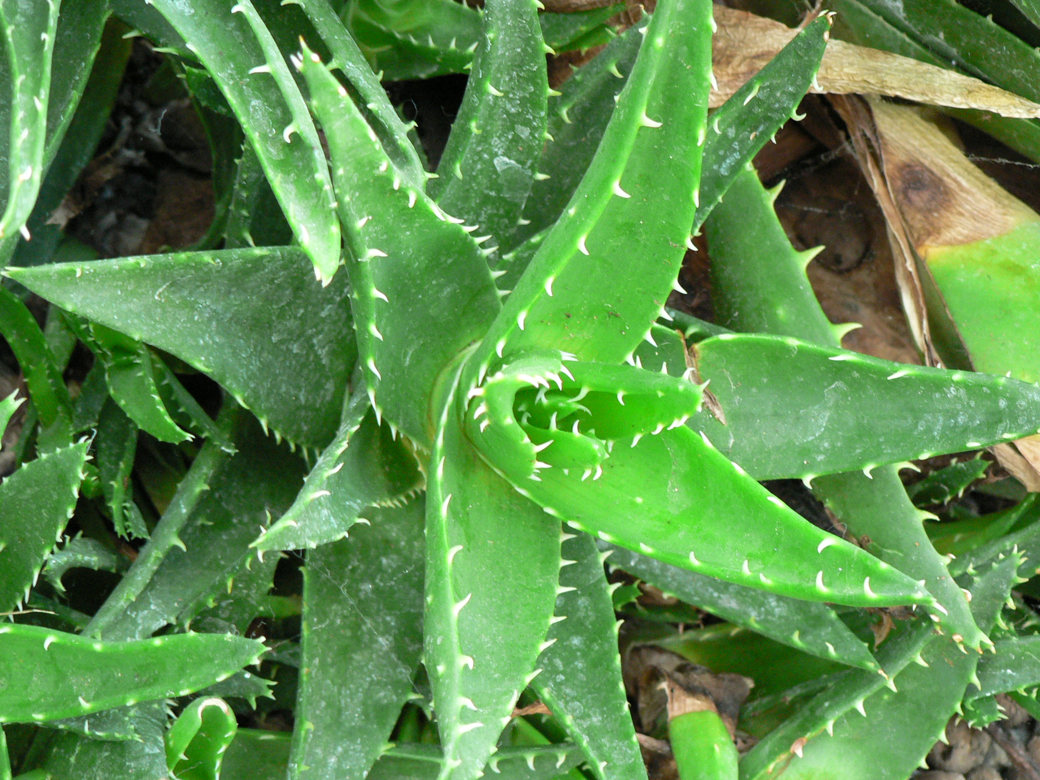 Aloe nobilis plant from the top. Taken by Rob Cowie in Leamington Spa, UK.